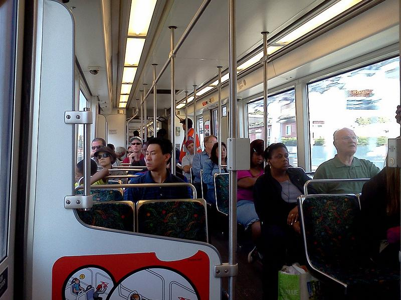 Taken aboard an Expo Line train on 2012-06-20, at 1635 PDT. This was the first day of service to Culver City Station.